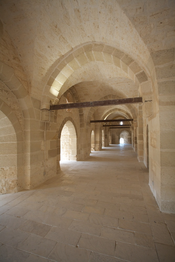 One of the halls of Citadel Qaitbay